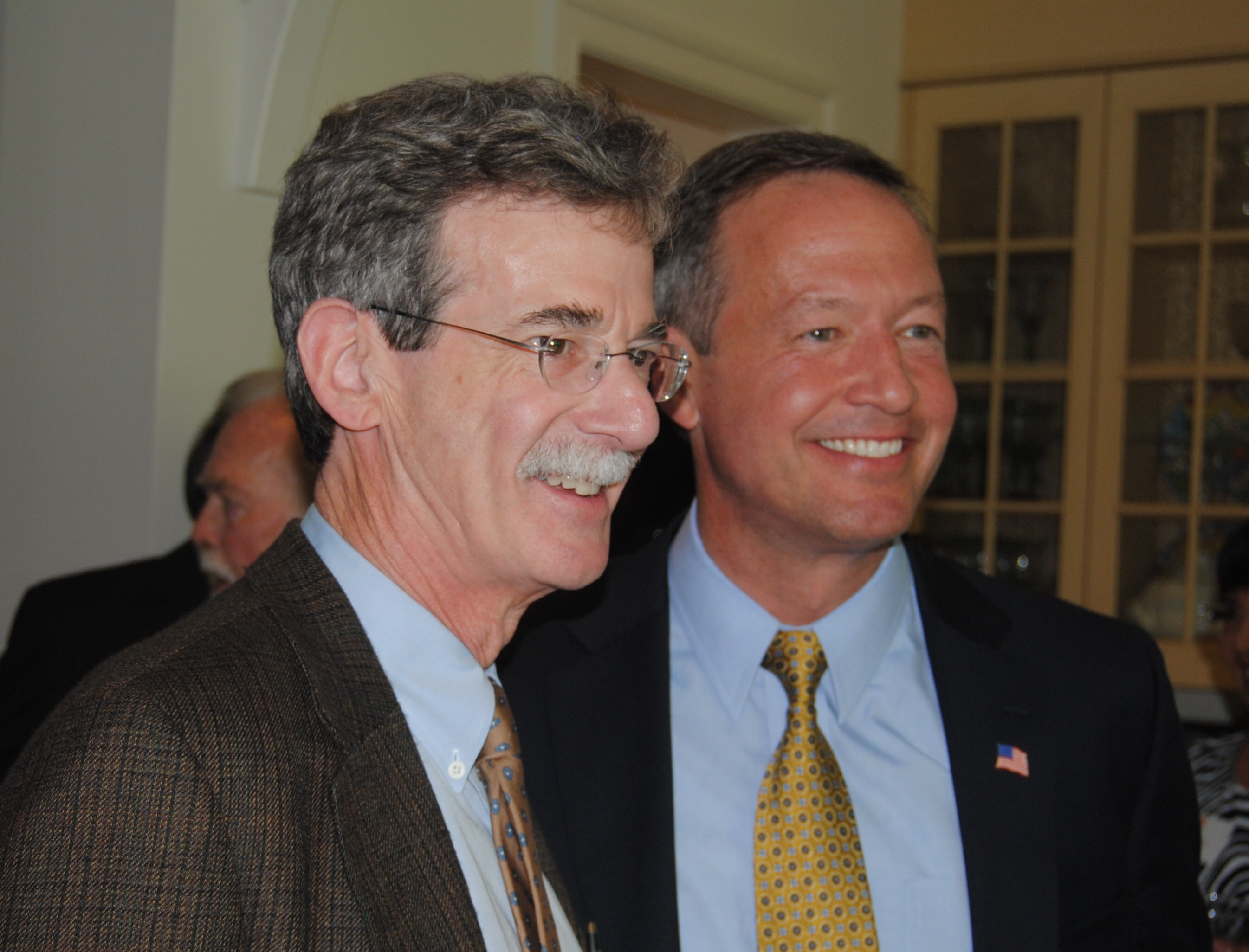 Maryland Senator Brian Frosh (left) and Maryland Governor Martin O'Malley